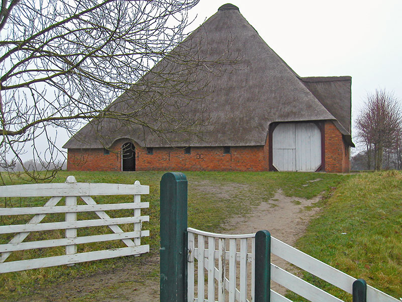 Rotelau, 1653, Ejdersted, South Schleswig. Moved to the open air museum Frilandsmuseet in Copenhagen in 1956. Photo 2004. Frits Lilbæk, Allerød, Danmark.